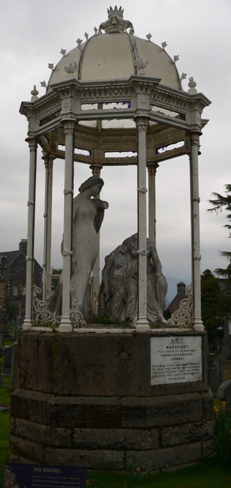 Church of the Holy Rude, Stirling, Scotland - Wilson Monument in graveyard